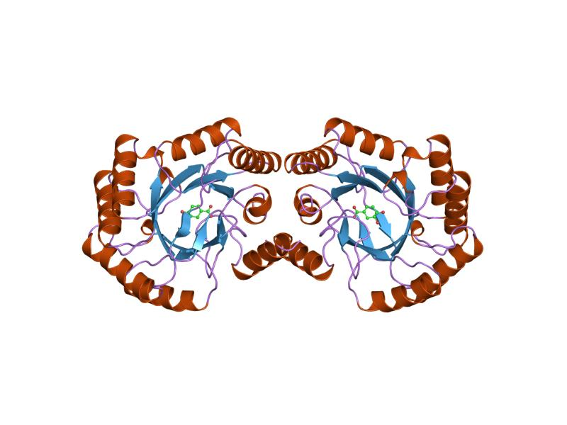 Cartoon representation of the molecular structure of protein registered with 1qfe code.